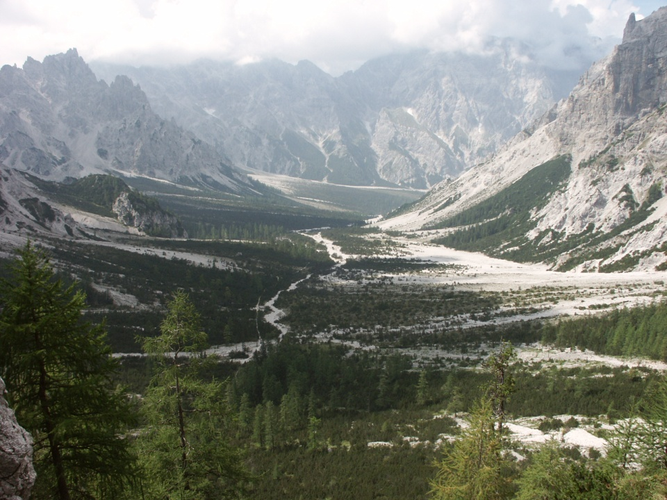 Wimbachgries, view from Trischübel, south of the Watzmann mountain